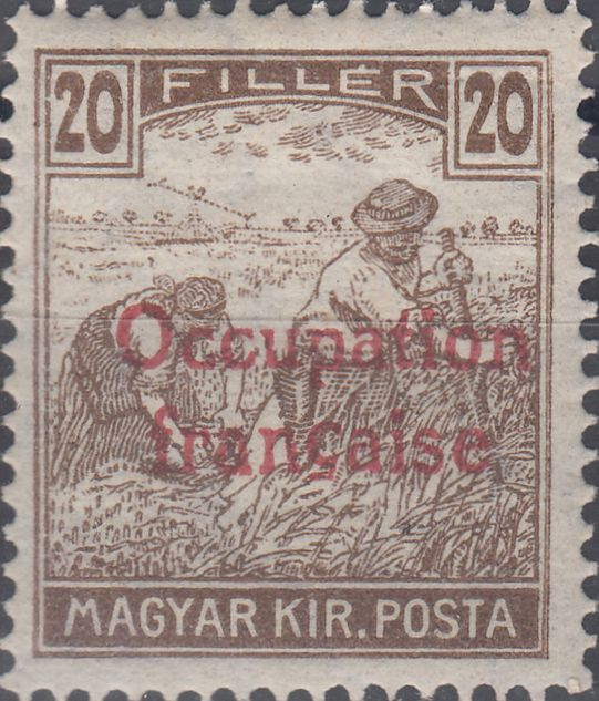 1919 Arad Occupation 1